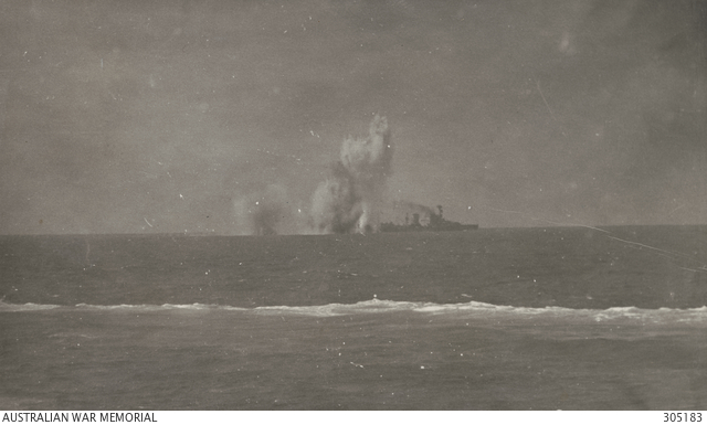 Original caption: Bombs from a Japanese aircraft falling around the Netherlands Cruiser Java during the Battle of the Java Sea.Note: Java was bombed by Japanese B5N aircraft on 15 February 1942 without sustaining damage. On 27 February during the Battle of the Java Sea, she was struck by a torpedo fired from a Japanese warship and sank 15 minutes later, just before midnight.